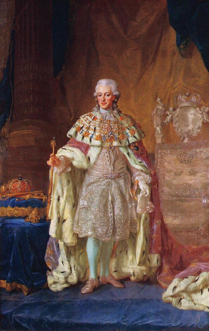 A portrait of Swedish king Gustav III that he himself donated to the Vasa hovrätt in Finland.